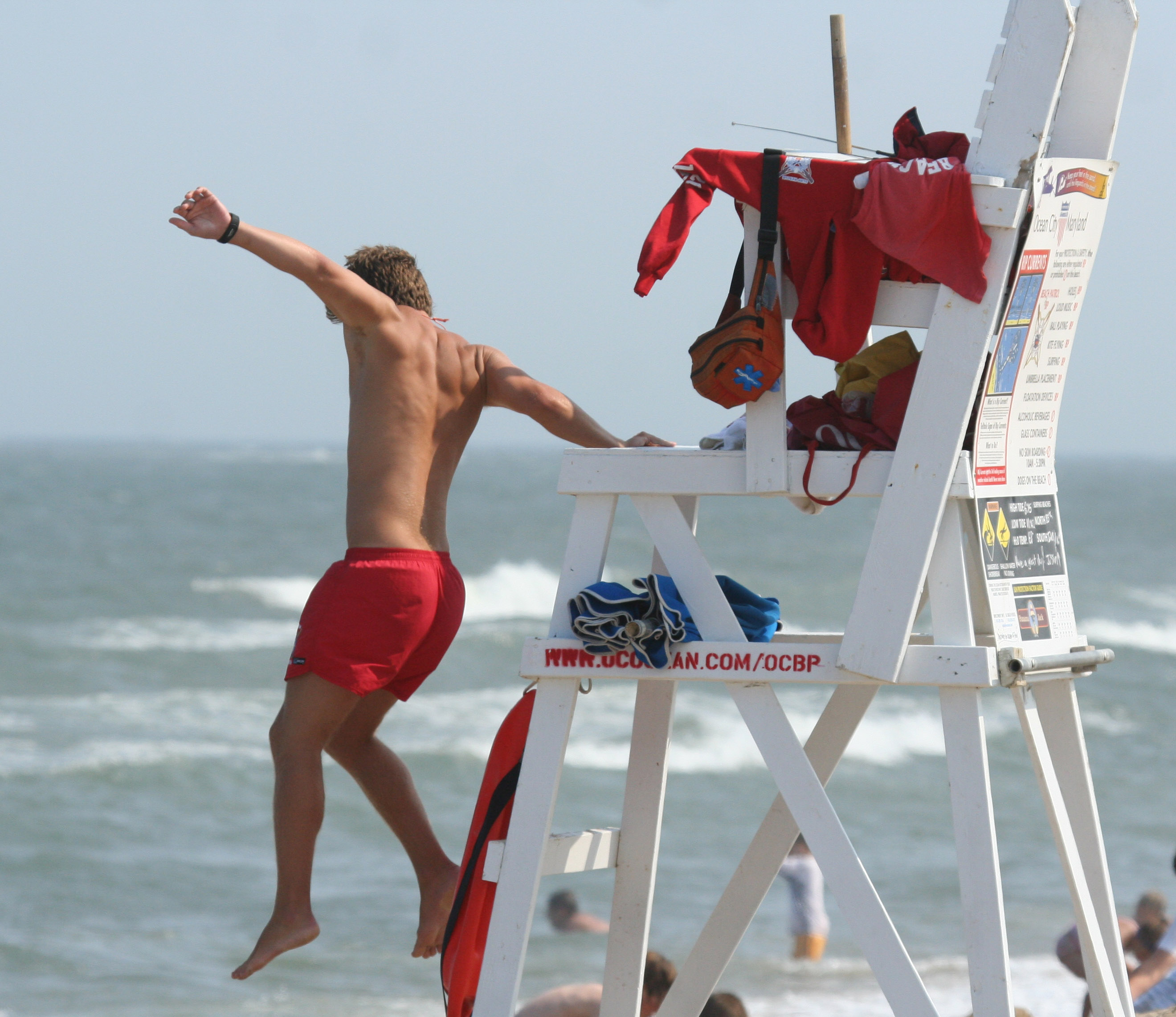 Lifeguard jumping into action in Ocean City, Maryland.